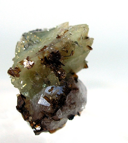 Genthelvite, Kupletskite-(Cs) Locality: Poudrette quarry (Demix quarry; Uni-Mix quarry; Desourdy quarry), Mont Saint-Hilaire, Rouville RCM, Montérégie, Québec, Canada (Locality at ) A superb example of this very rare species, from a single pocket collected about 2 years ago that features unusually large, unusually translucent, unusually pretty pastel green crystals. 1.4 x 0.9 x 0.9 cm